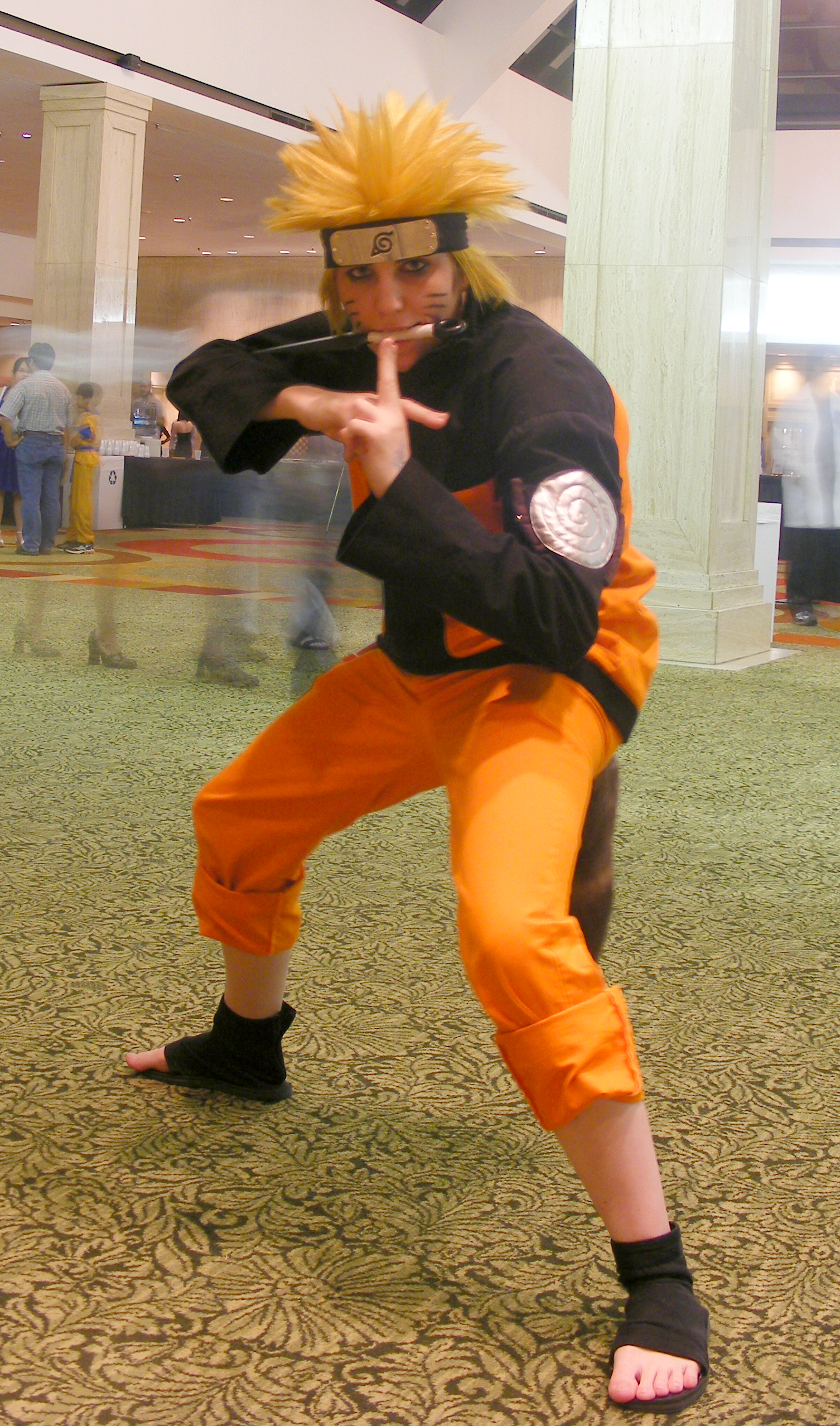 derivate of Cosplay - AWA15 - Naruto Uzumaki for use in article